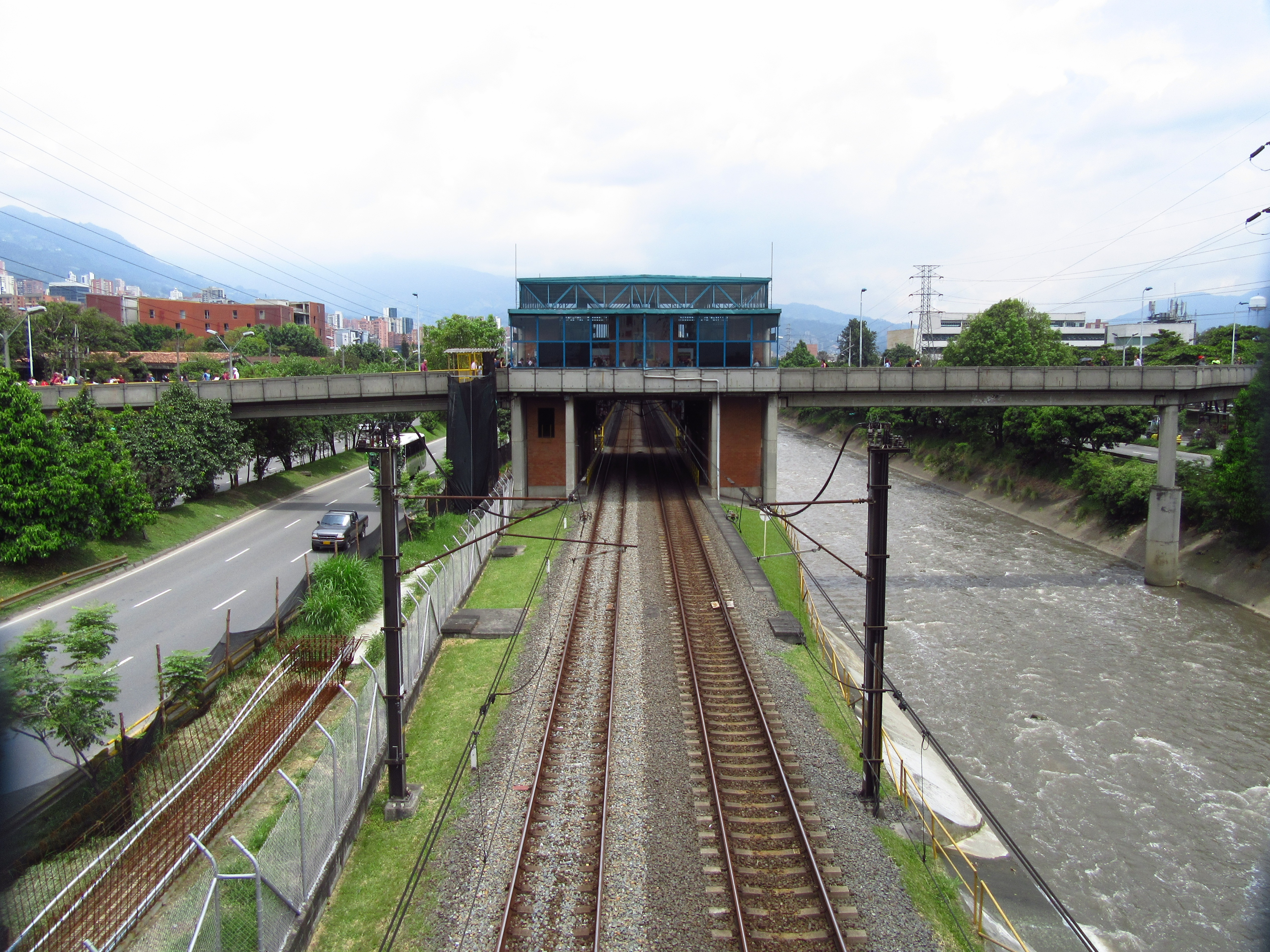 Medellín